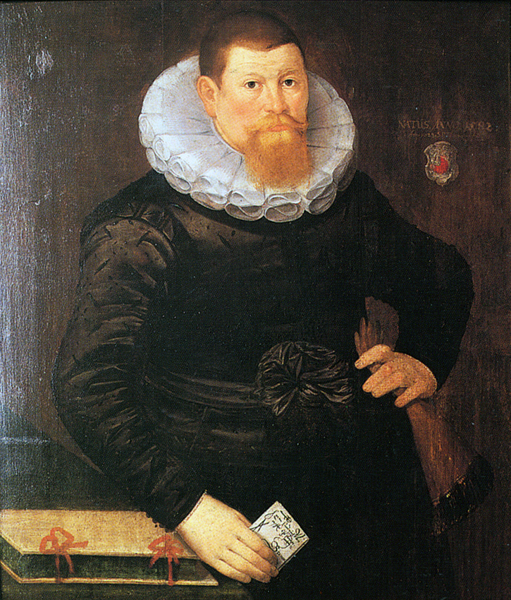 Portrait of the councilor of Bremen (Germany) Heinrich von Aschen the older (1582–1654)